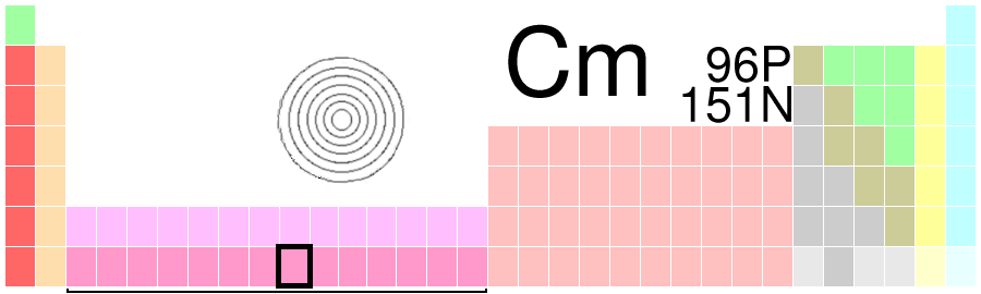 Created by User:Ahoerstemeier similar to the other element boxes